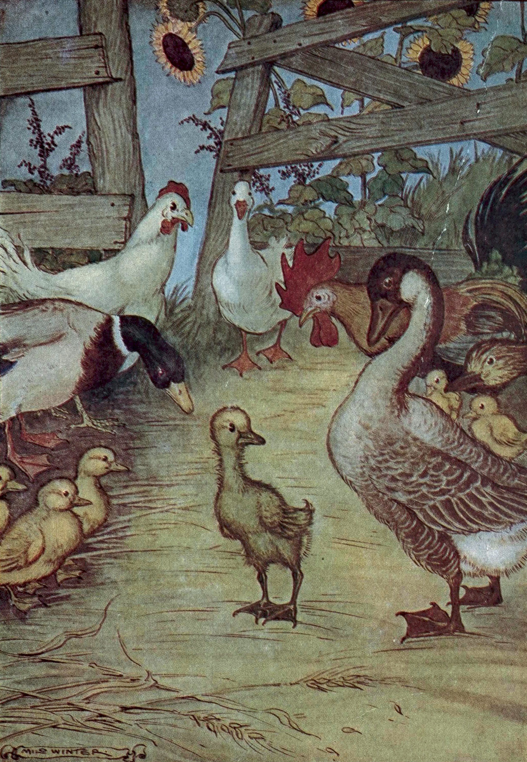 Illustration of the "Ugly Duckling" by Milo Winter, a renowned illustrator (August 7, 1888 – August 15, 1956). Illustration was first published in 1916 in the United States in the book "Hans Andersen's Fairy Tales." This work is now considered public domain.